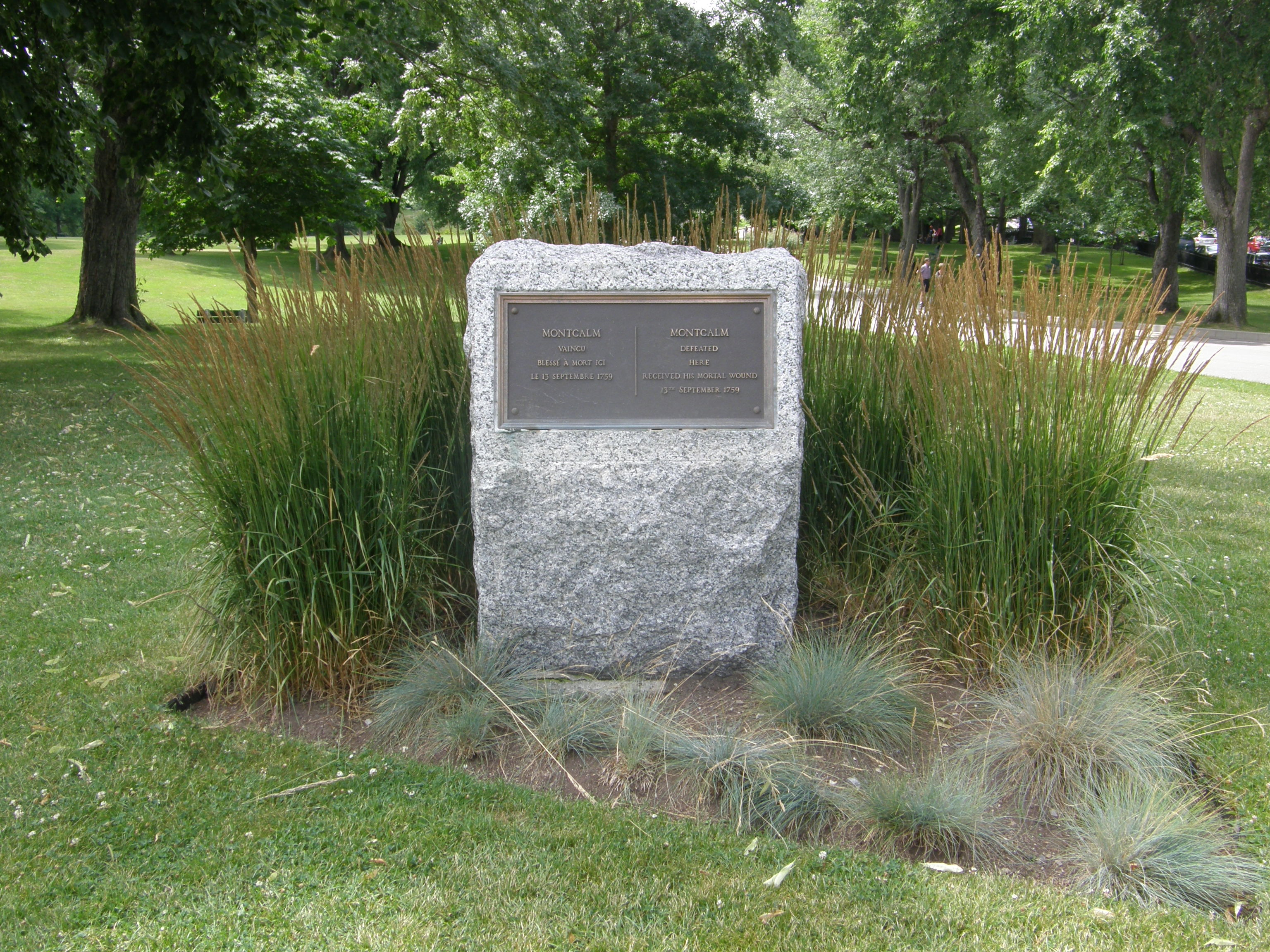 A memorial that marked the spot where Louis-Joseph de Montcalm received his mortal wound during the Battle of the Plains of Abraham